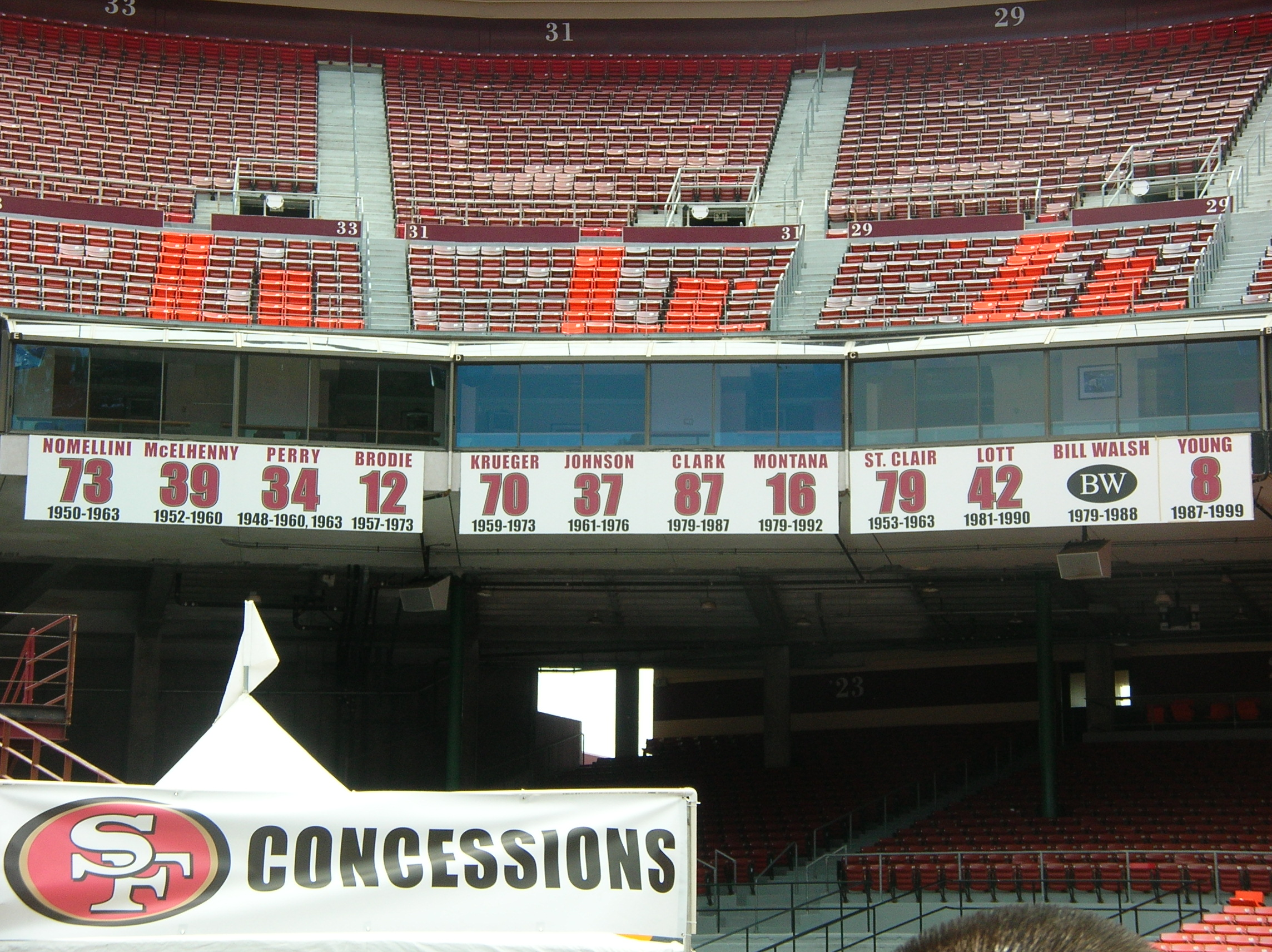 The San Francisco 49ers' retired jersey numbers displayed on the southeast side of Candlestick Park.